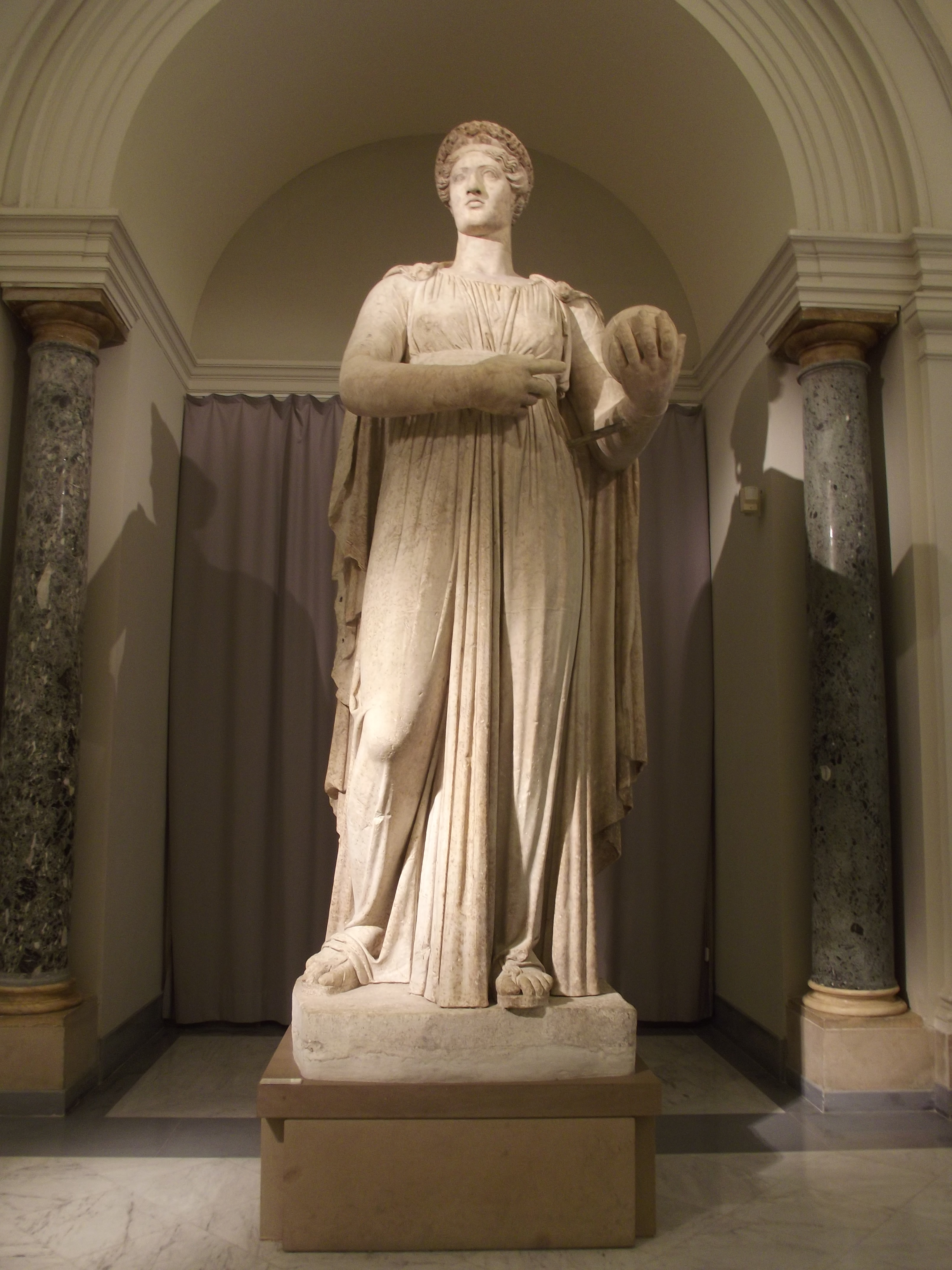 Muse, the so called Urania 1st century BC or 2nd century AD reworking of a Greek original of the 2nd century BC